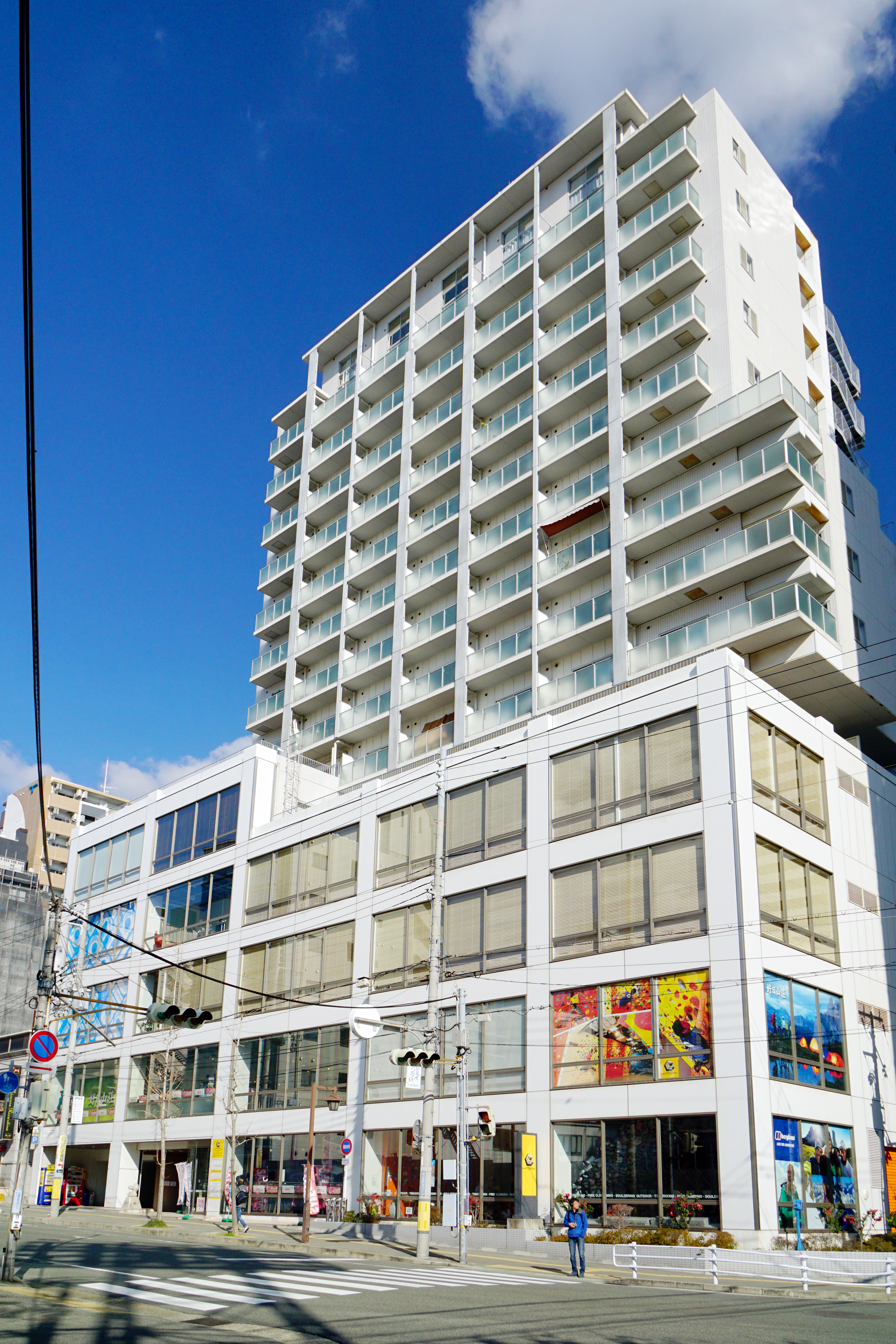 IPSX EAST, Kobe, Hyogo prefecture, Japan.